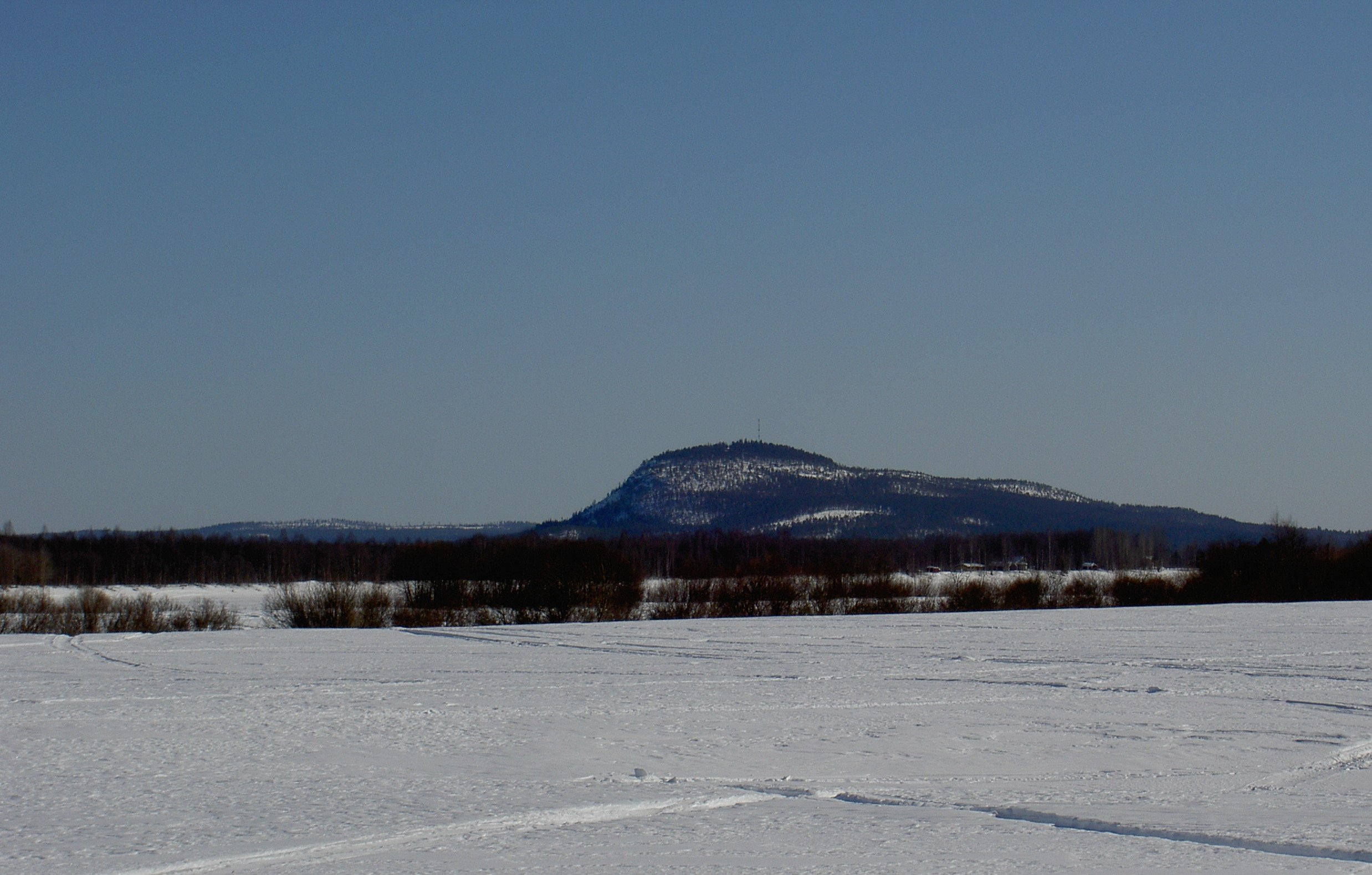 The Aavasaksa mountain seen from Kuivakangas.